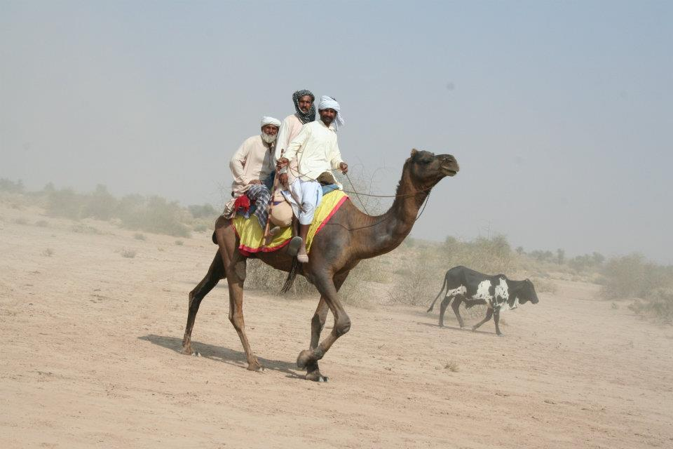 Saraiki Tradition